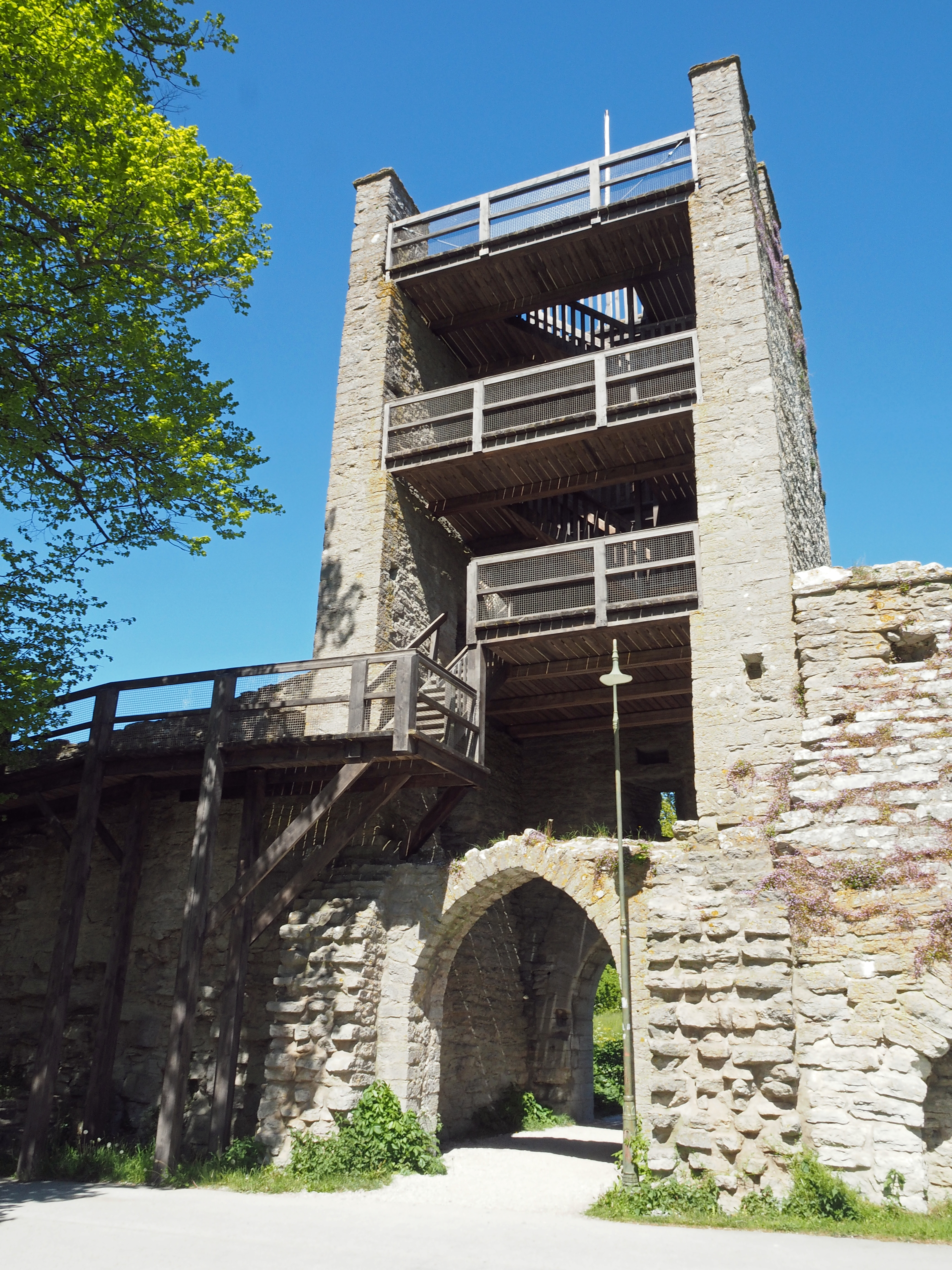 Snäckgärd Gate in the Town Wall Visby